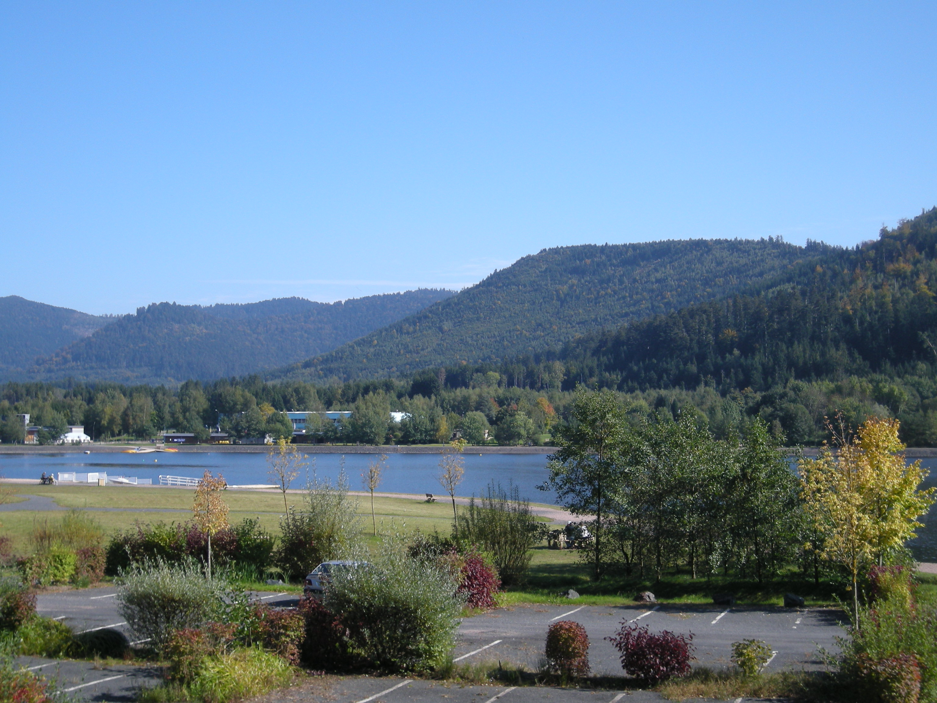 Lac de la Plaine (artificial lake in Lorraine, France)